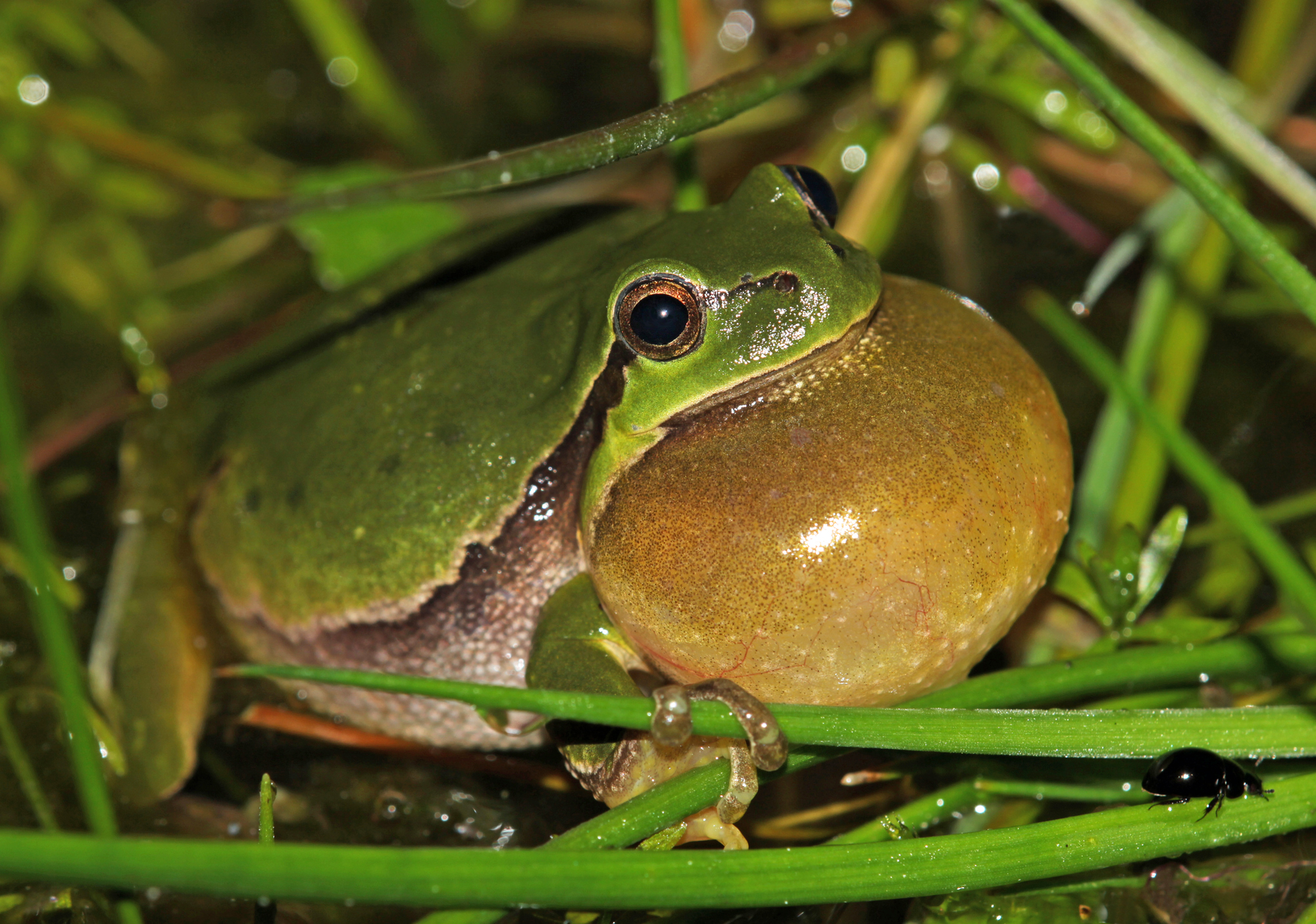 A European Tree Frog (Hyla arborea), calling male with distended gular vocal sac (photo taken at night).